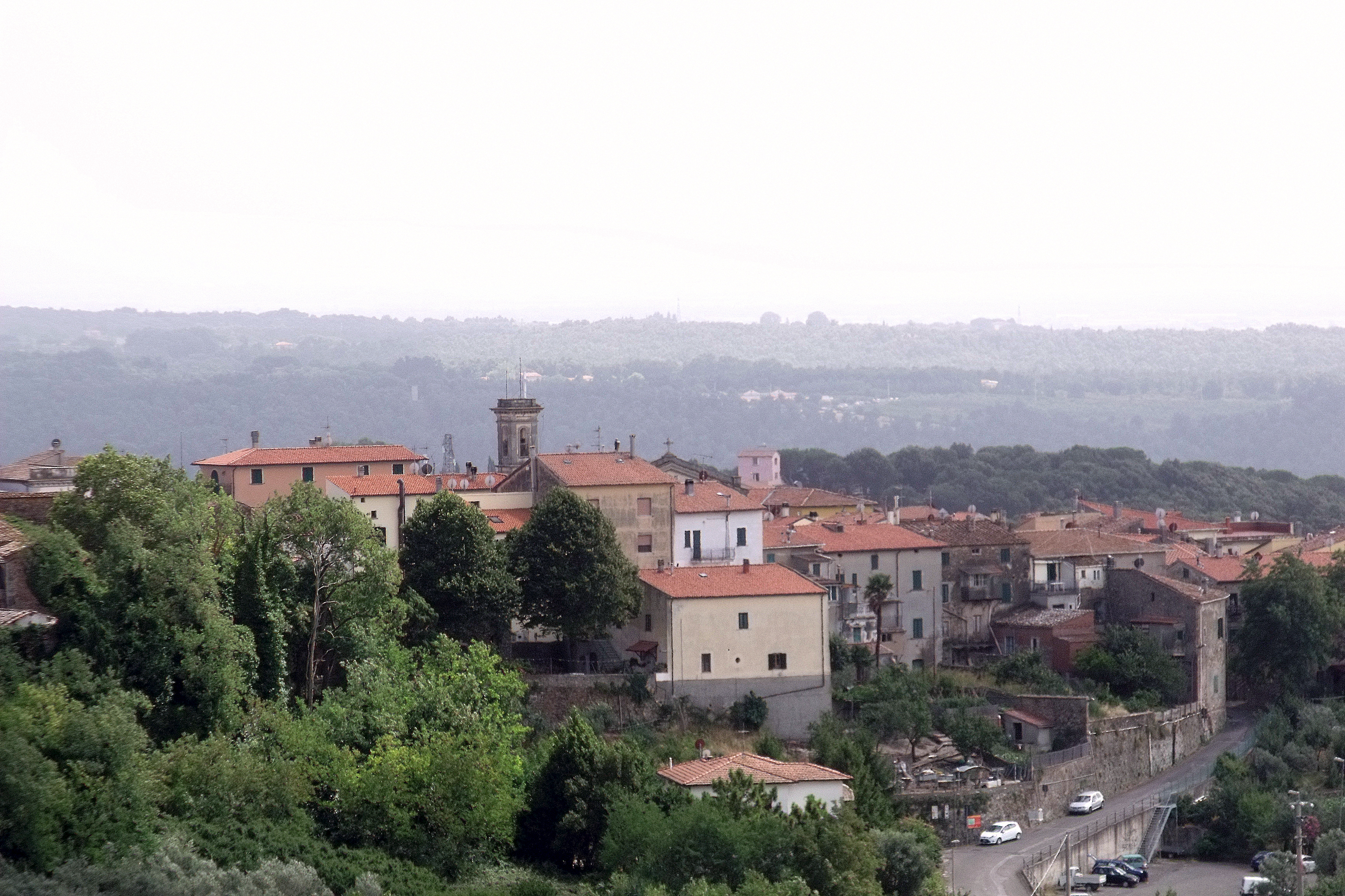 Panorama of Riparbella, Province of Pisa, Tuscany, Italy